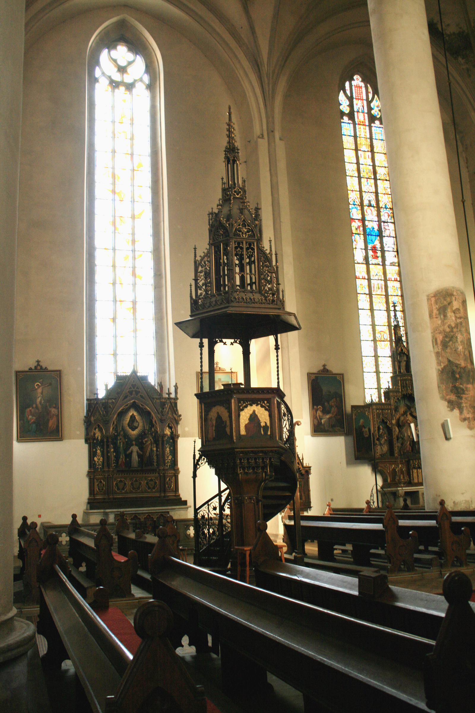 Pulpit of church of St. Nicolas in Cheb, Czech Republic